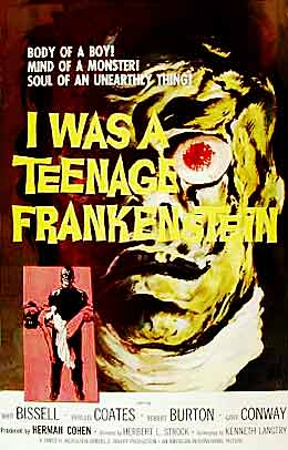 Description: Low-resolution reproduction of poster for the film I Was a Teenage Frankenstein (1957)